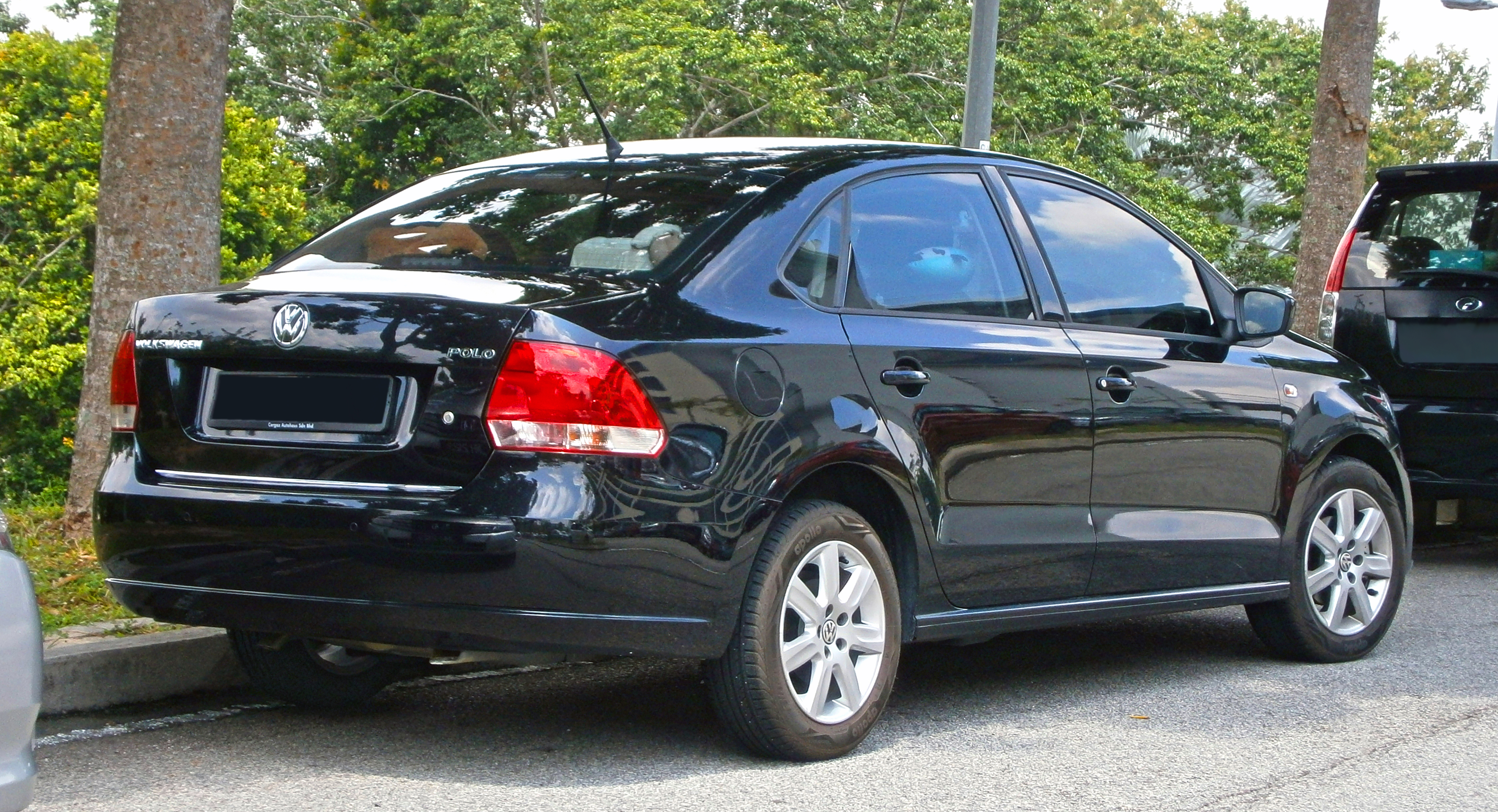 2014 Volkswagen Polo Sedan (CKD) in Cyberjaya, Malaysia. Colour : Deep Black